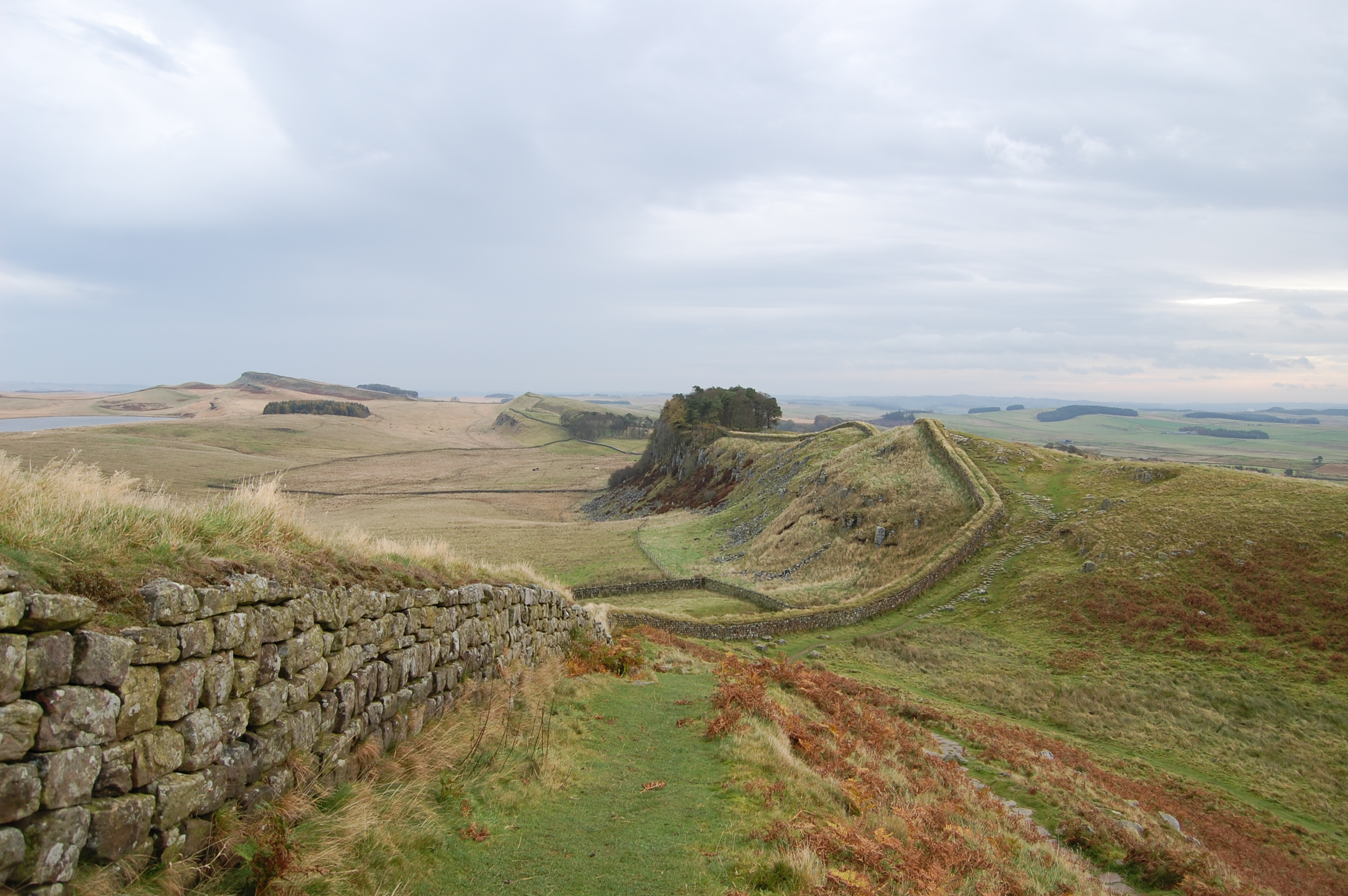 A stretch of Hadrian's Wall about 1 mile west of the Roman Fort near Housesteads.